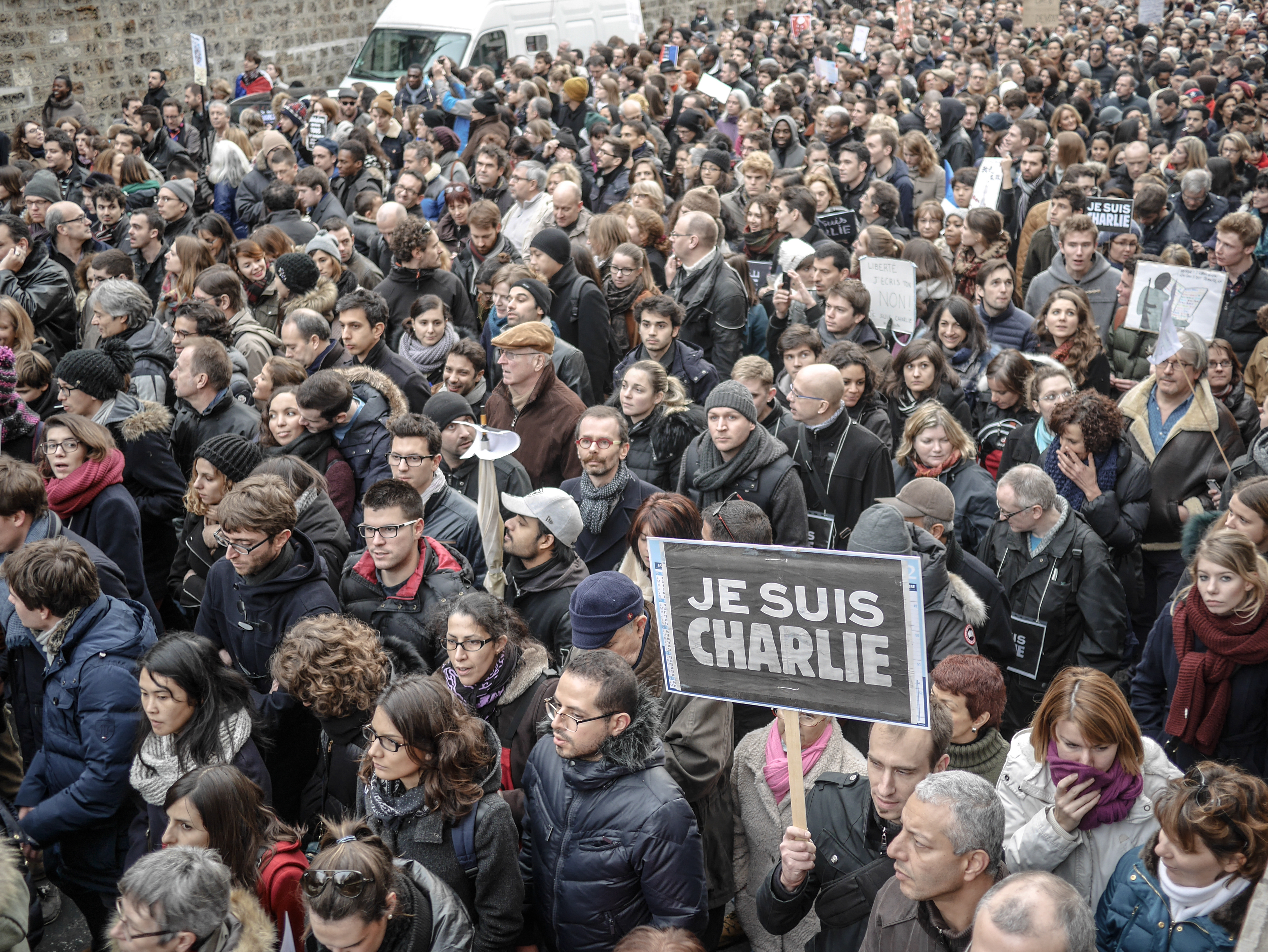 Paris rally in support of the victims of the 2015 Charlie Hebdo shooting, 11 January 2015.